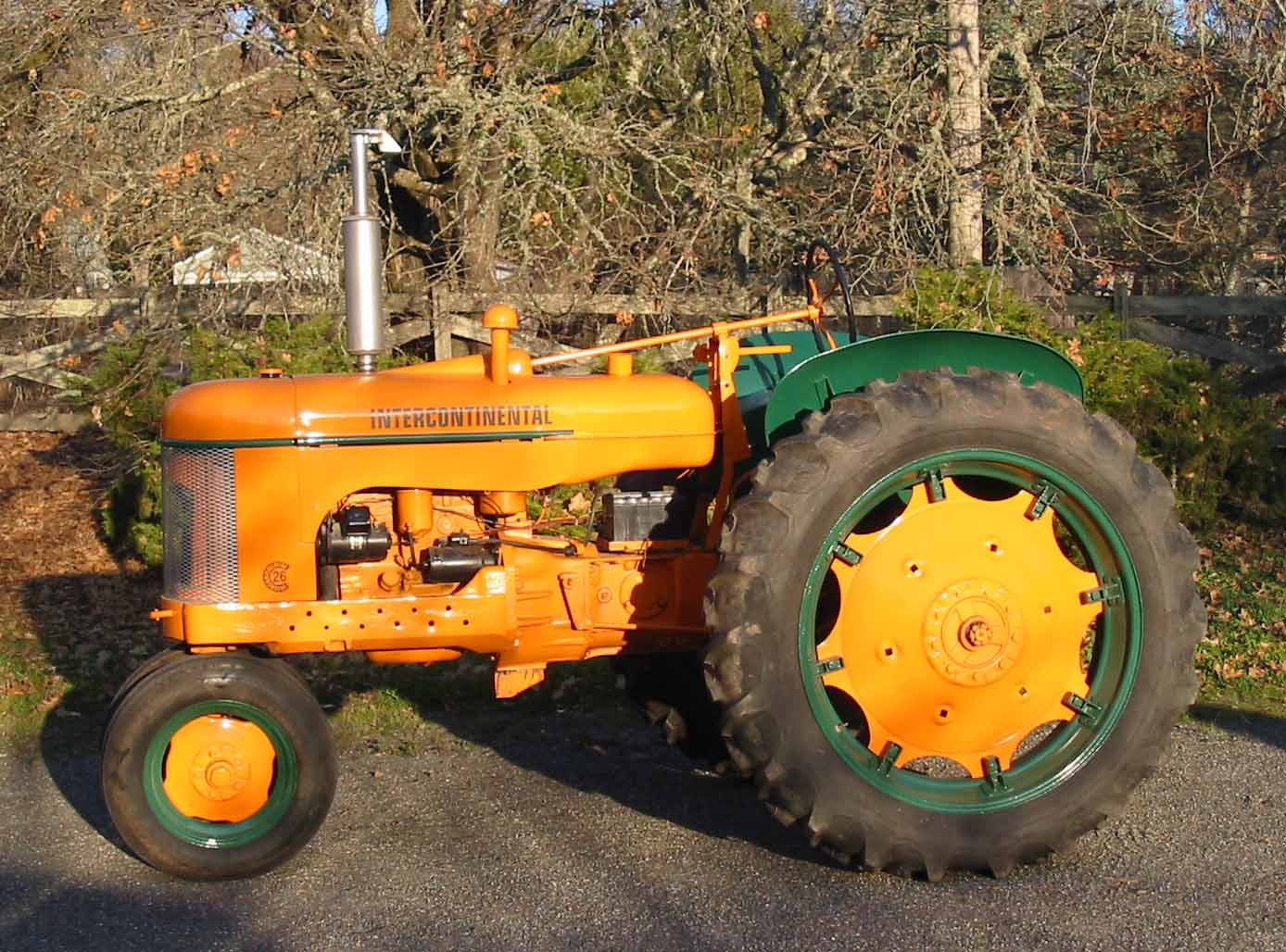 Intercontinental Manufacturing Company (IMCO) restored tractor, restored by Mark Strusz ~1999